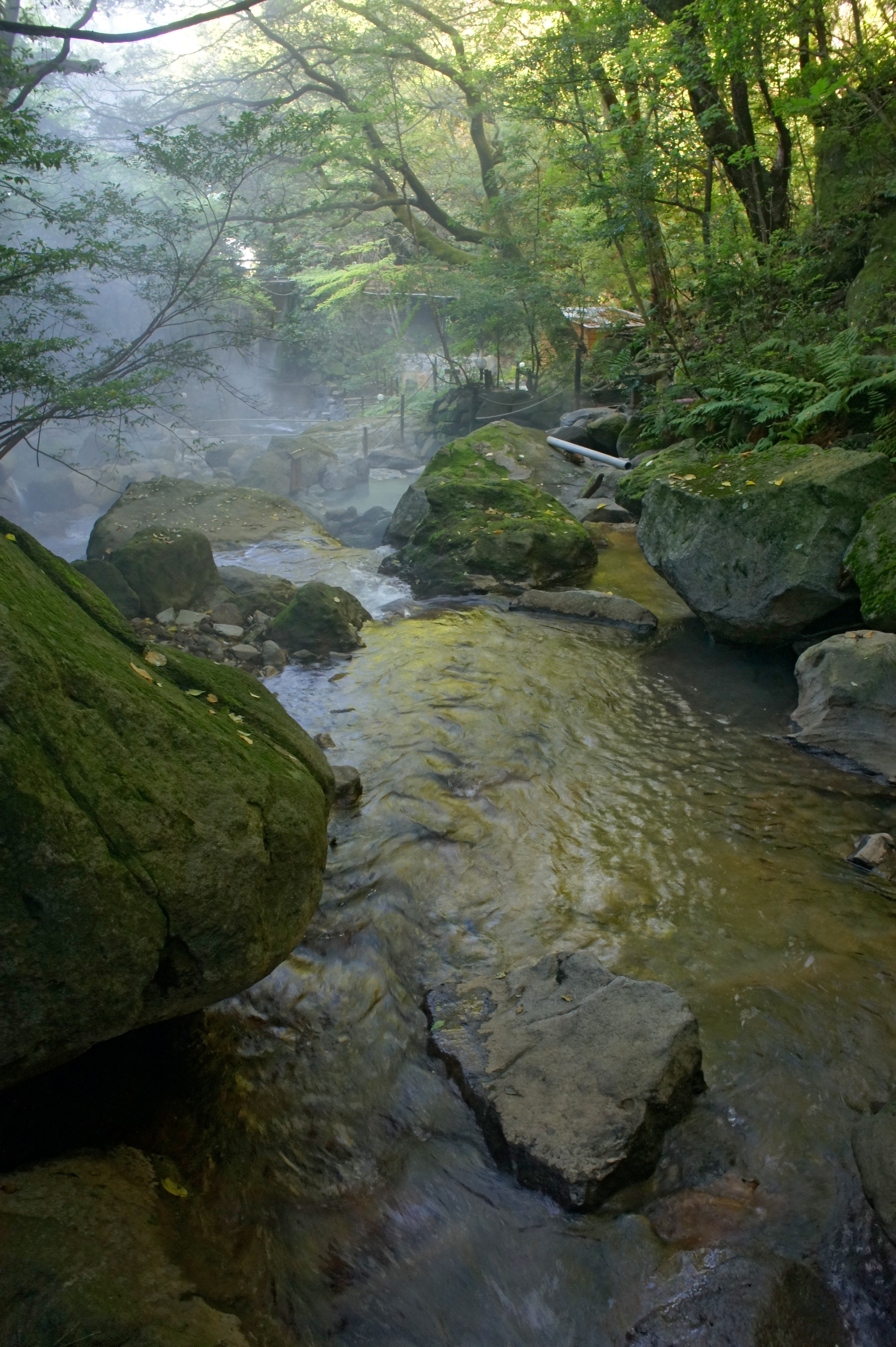 Ryokukeitouen of Eino-o Onsen in Kirishima, Kagoshima prefecture, Japan.